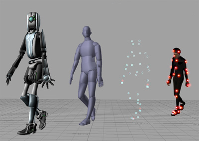 Modified version of Image:Activemarker2.jpg - no logo. Old version was PD, this also PD by me.